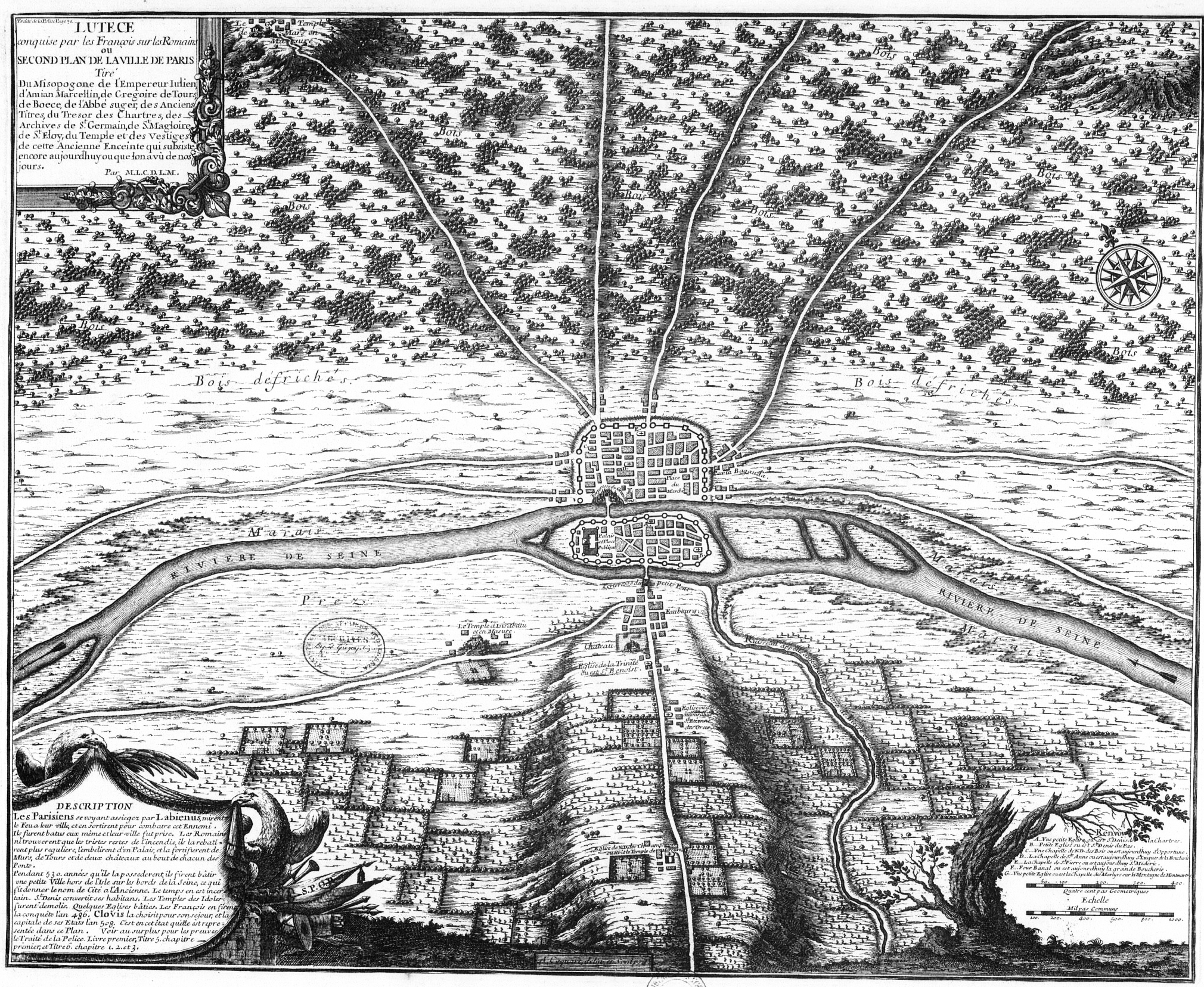 Plan of Lutèce/Paris in the year 508, the second of eight chronological maps of Paris from Traité de la police